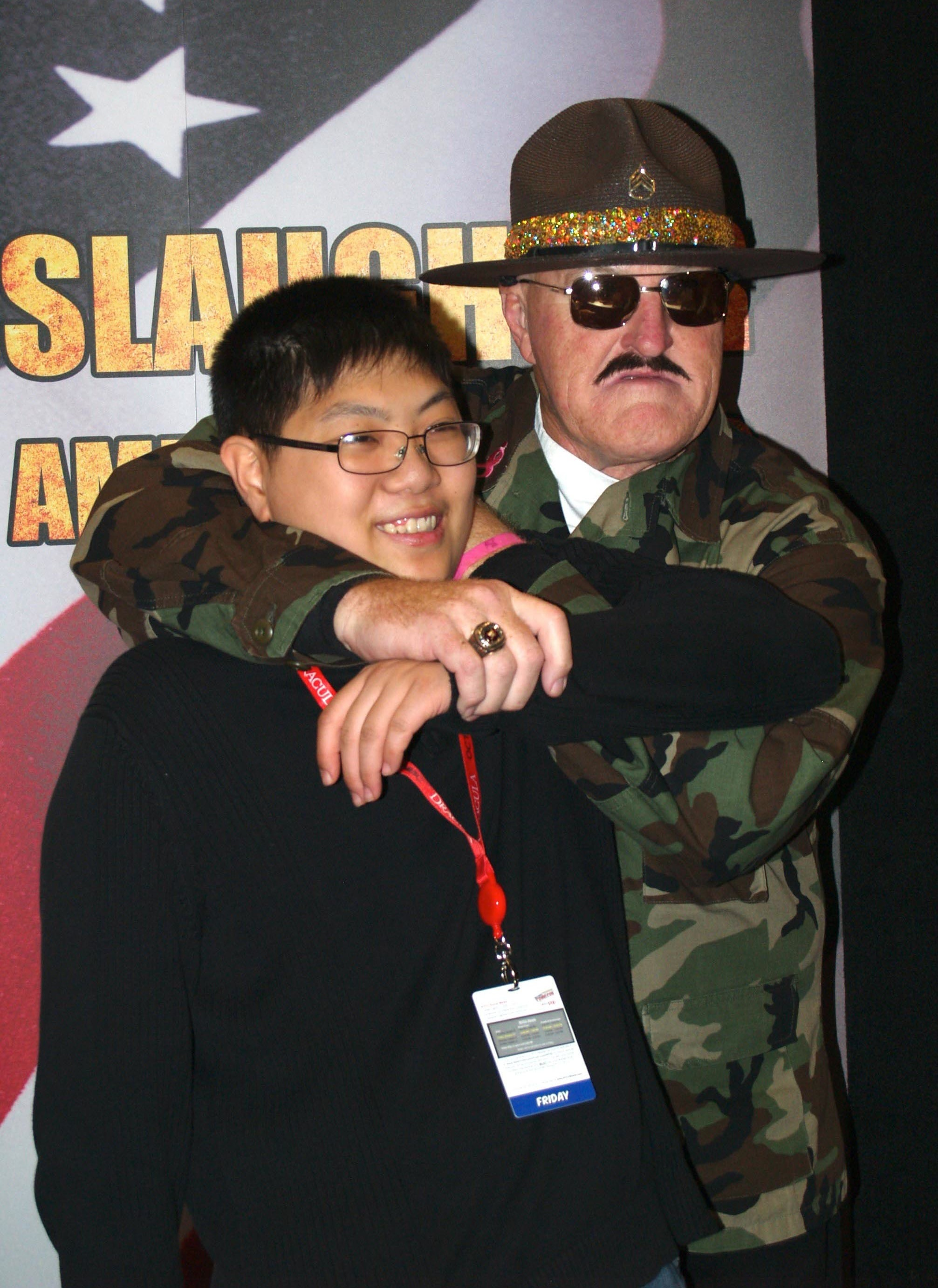 Professional wrestler Sgt. Slaughter posing wit a fan on Friday, October 11, 2013 at the Jacob K. Javits Convention Center in Manhattan, Day 2 of the 2013 New York Comic Con. This photo was created by Luigi Novi. It is not in the public domain, and use of this file outside of the licensing terms is a copyright violation.